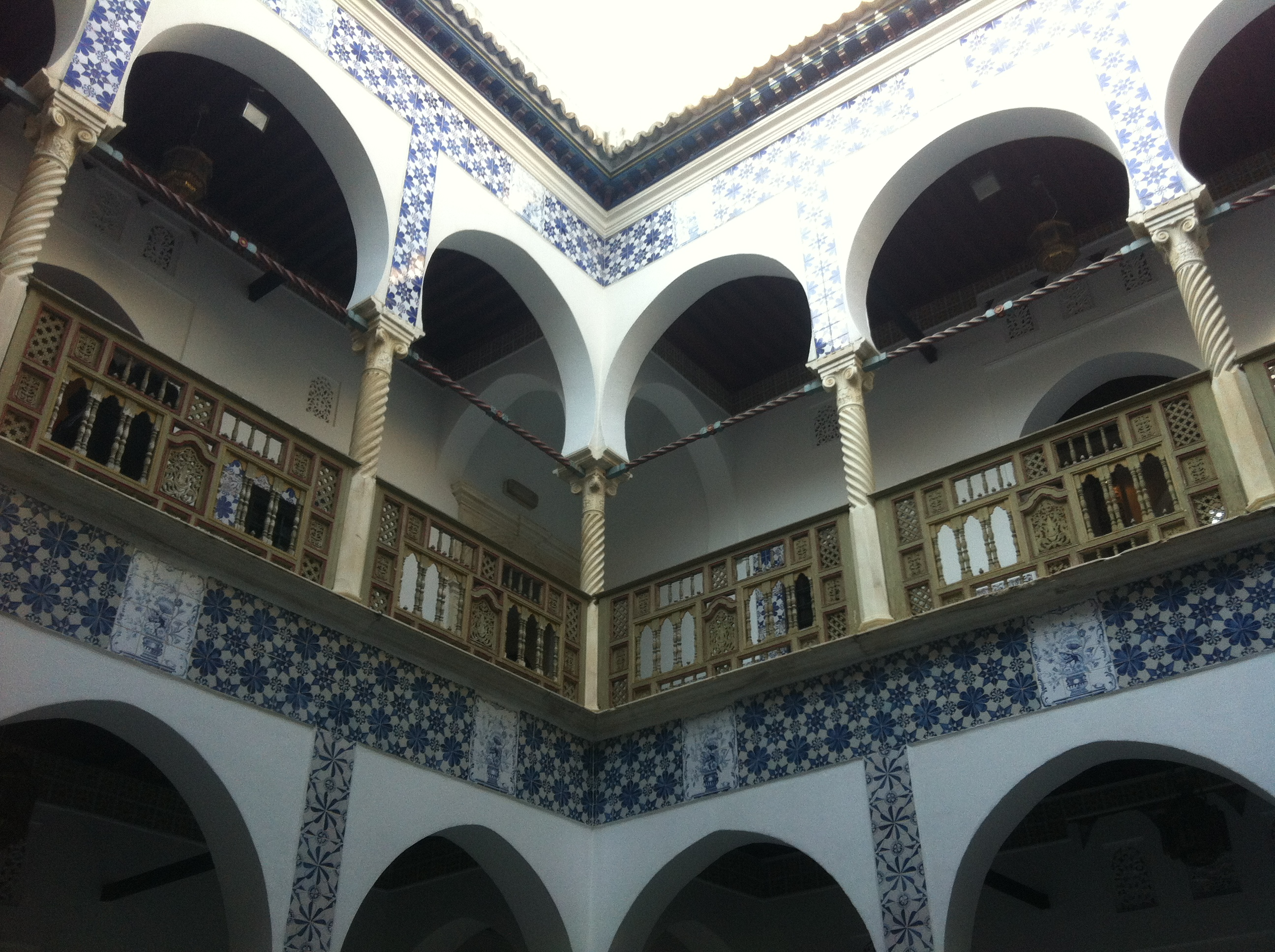 "Ouest Dar" litterally means "The middle of the house". Picture taken downstairs showing the 1st floor.